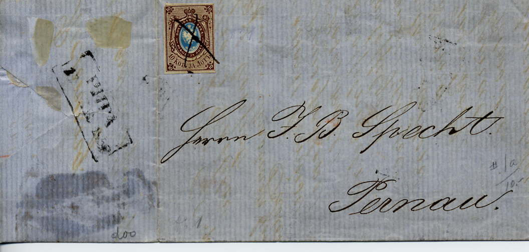 Pen cancellation of the first Russian stamp on a folded letter sent from Riga to Pernau.